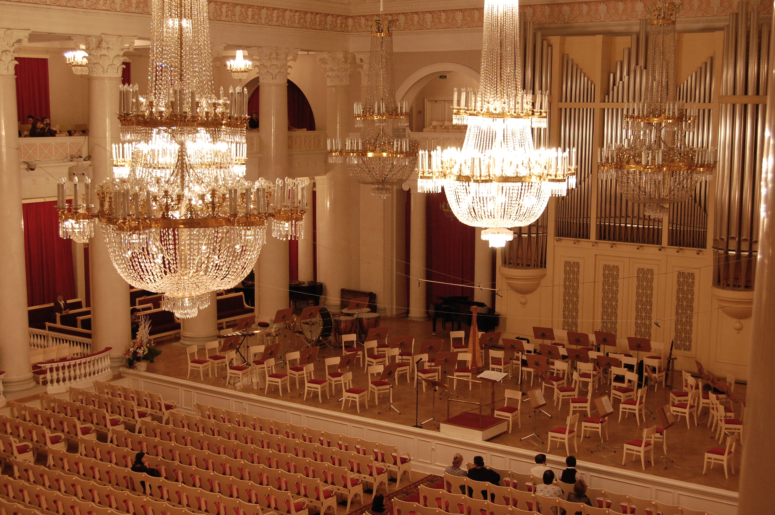 Saint Petersburg Philharmonia (the Grand Hall)